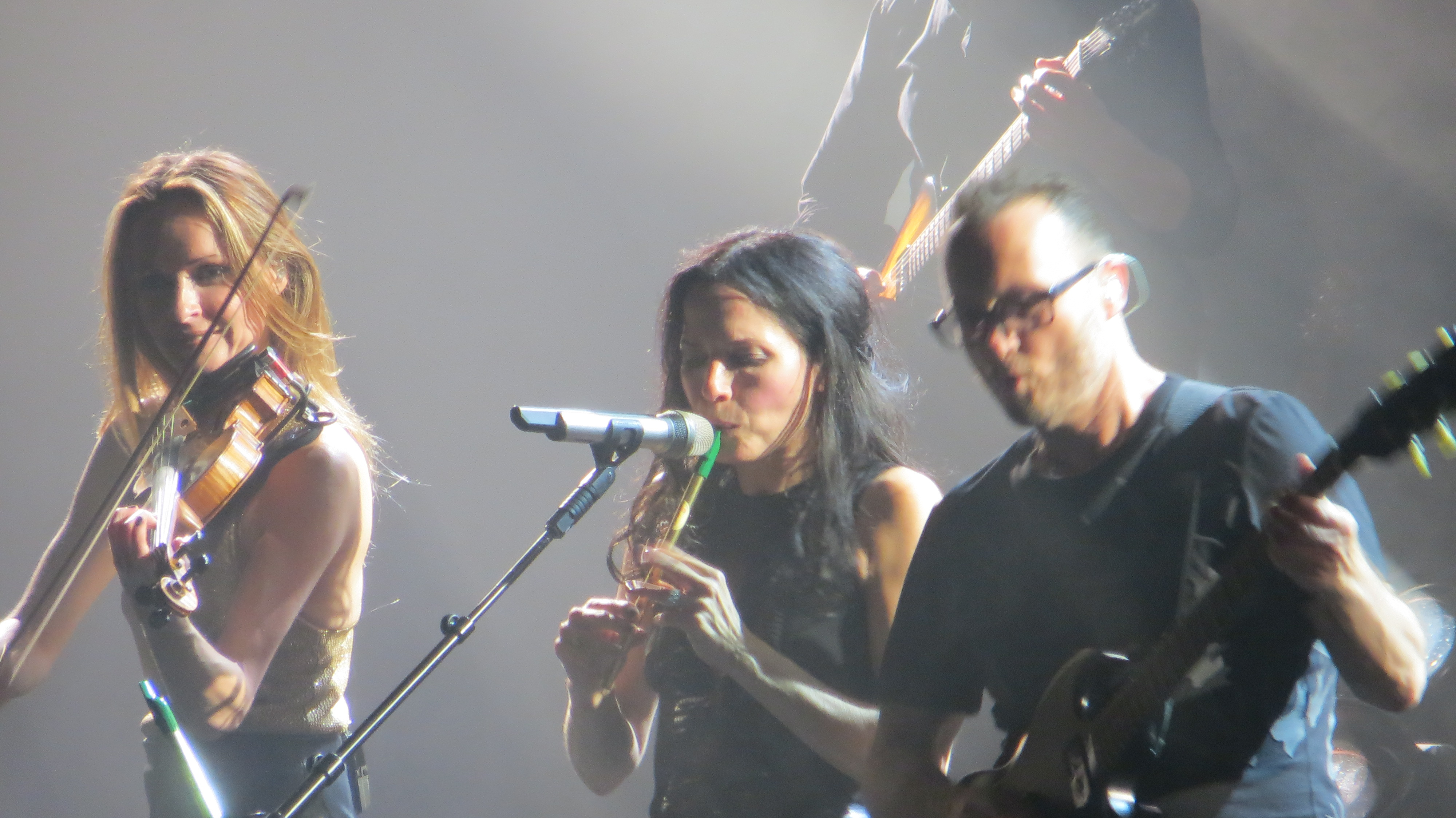 The Corrs in Vienna (Stadthalle, 2016)